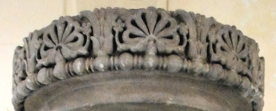 Allahabad Ashoka pillar frieze. Frieze of capital of Lat at Allahabad, with flame palmette within multiple calyx lotuses. Now in the Allahabad Museum. Top portion of this capital. Treasury of the Siphnians frieze 525 BCE. Frieze at Didyma. Longer length of the Allahabad abacus. Frieze at Pergame, 2nd century BCE.